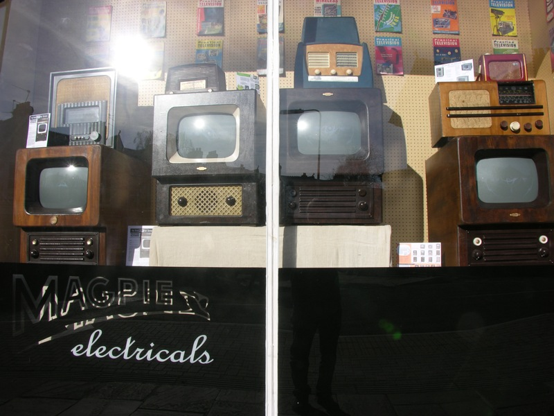 These TVs look old but contain new components. They are driven by a bank of DVD players hidden below. Doctor Who filming